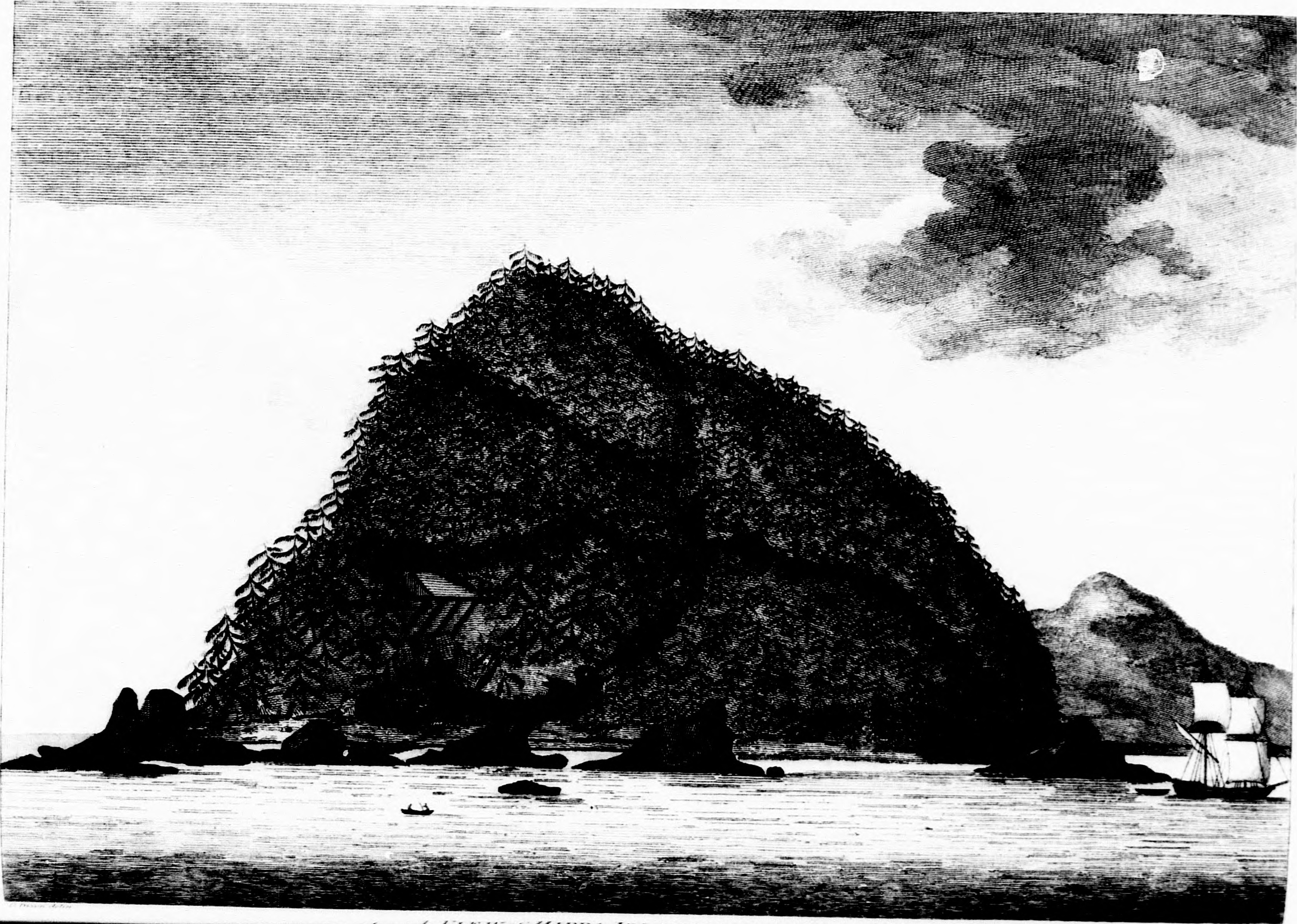 Title: A voyage round the world, but more particularly to the north-west coast of America (microform) : performed in 1785, 1786, 1787, and 1788, in the King George and Queen Charlotte, Captains Portlock and Dixon ; dedicated, by permission, to Sir Joseph Banks, Bart. Year: 1789 (1780s) Authors: Beresford, William, fl. 1788; Dixon, George, d. 1800? Subjects: Voyages around the world; Botany; Zoology; Voyages autour du monde; Botanique; Zoologie Publisher: London : Published by Geo. Goulding . .. Text Appearing Before Image: ' Text Appearing After Image: North-West Coast of America... Page 205 View of Hippa Island, Queen Charlotte Isles. Note: This book written Dixon. Portlock was in command of the larger vessel, the 320-ton King George, with a crew of 59. Dixon's was in command of the 200-ton Queen Charlotte, with a crew of 33. Dixon and Portlock sailed together for most of their three-year voyage.